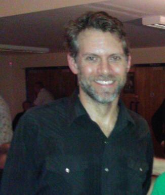 Rod Picott photographed at a gig in 2011.